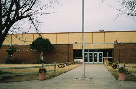 Munday High School. Rbsfgrlaty 19:49, 11 April 2007 (UTC)